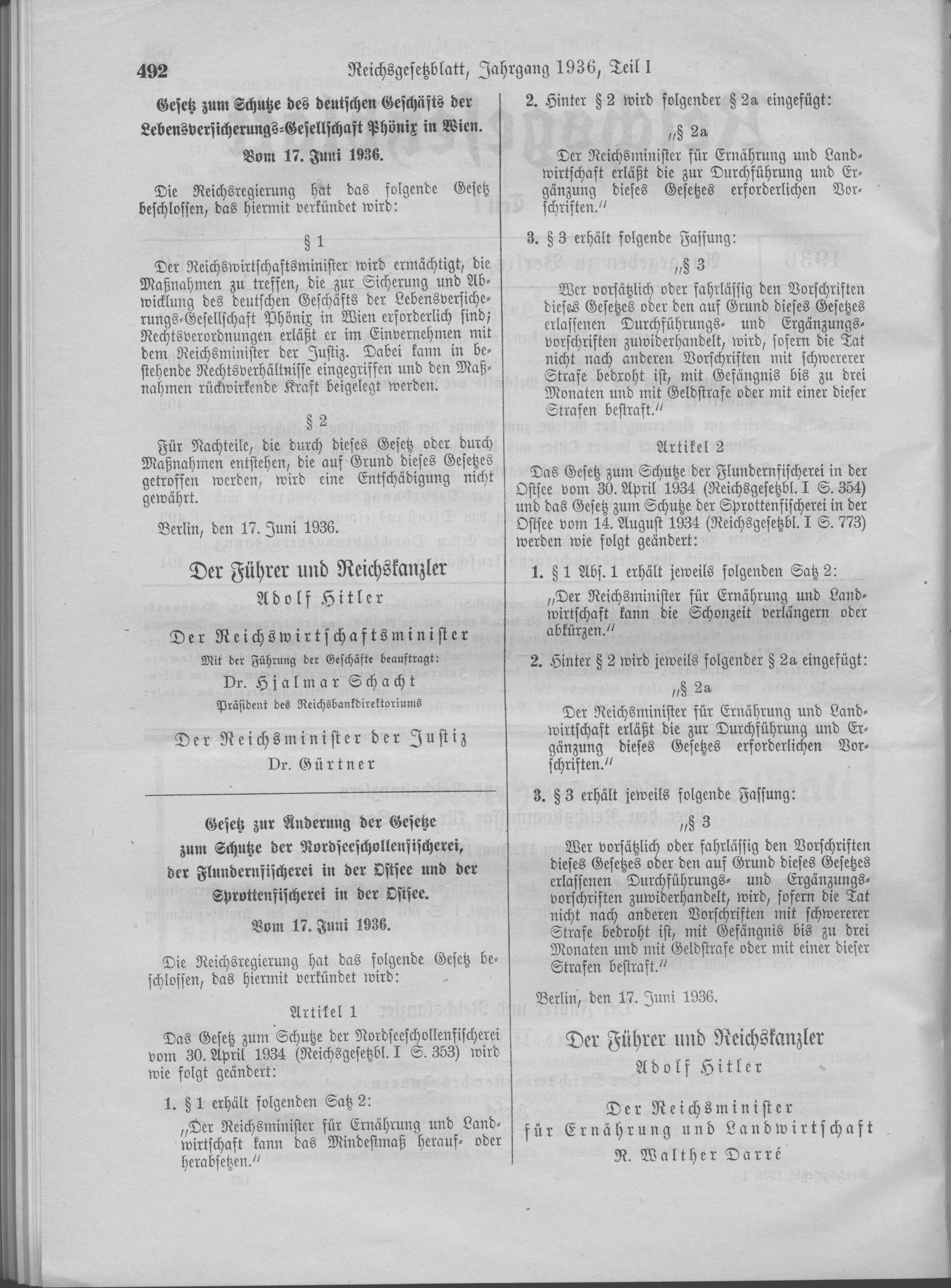 Scan from the Imperial Law Gazette of Germany, 1936, part 1